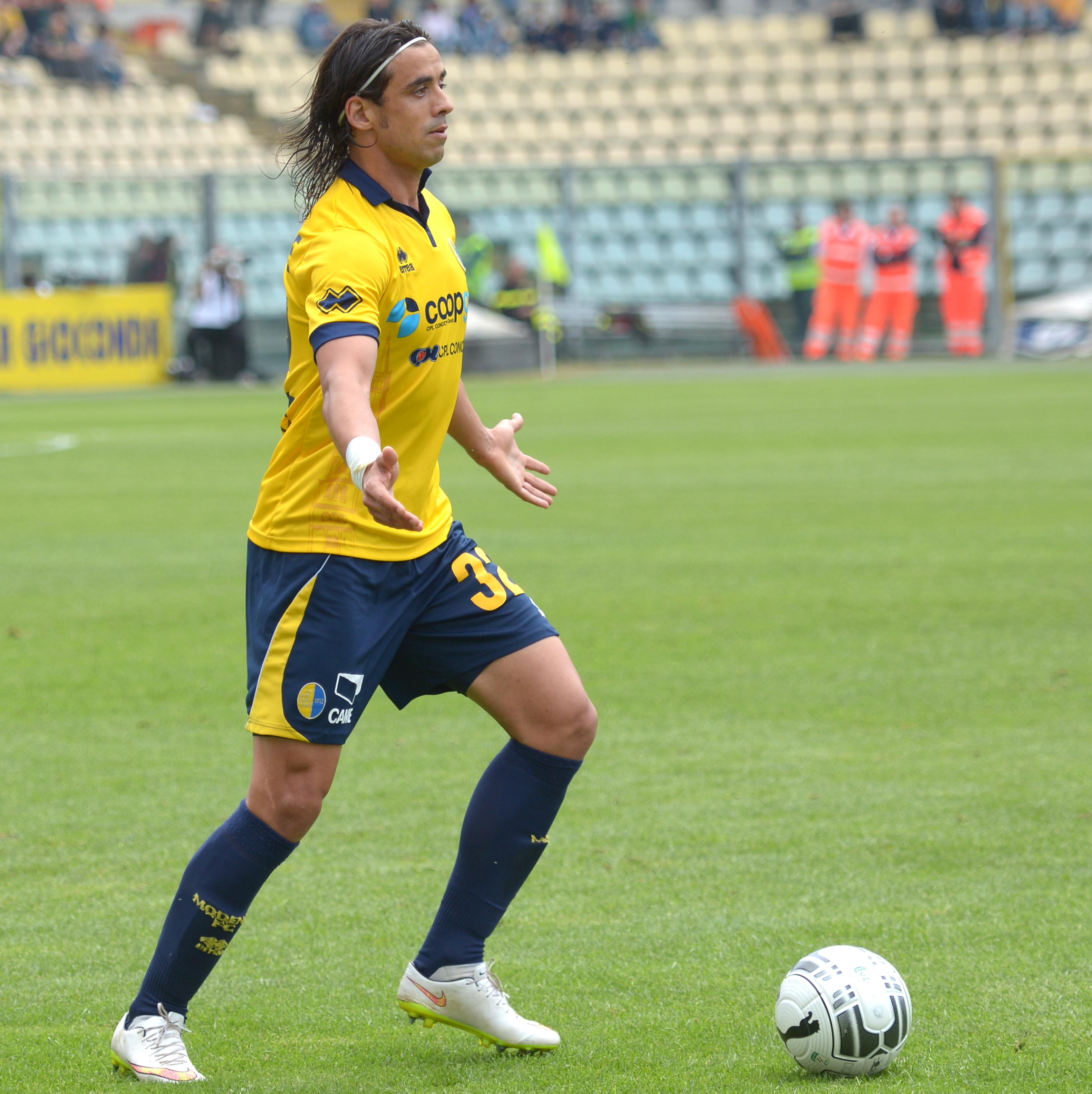 Pablo Granoche Louro in action during the match Modena versus Ternana